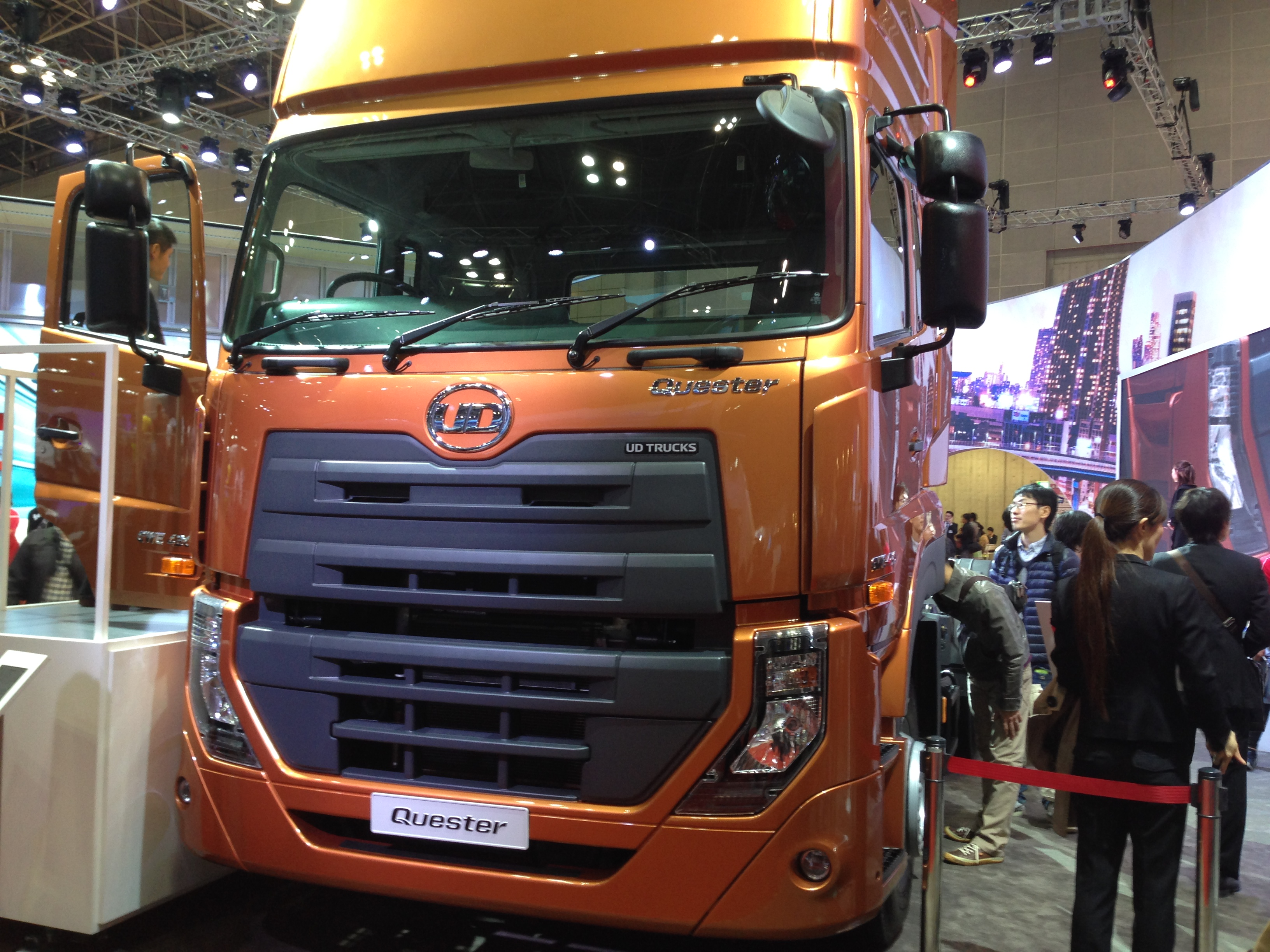 UD Quester GWE 6x4 Tractor photographed at the Tokyo Motor Show 2013.